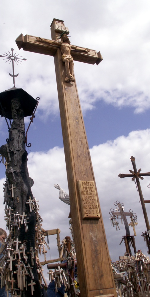 Cross of Šiauliai bishops in Hill of Cross